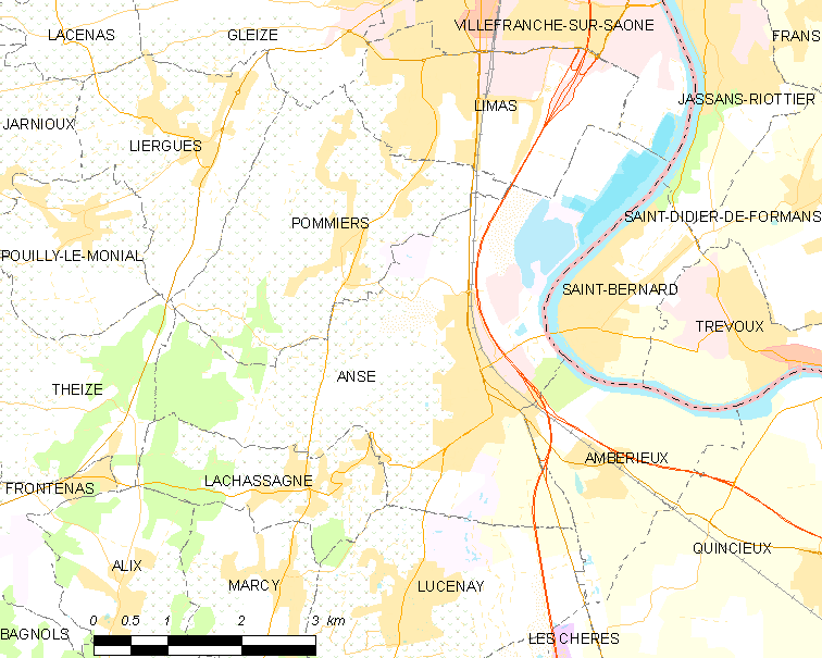 Map of French municipality